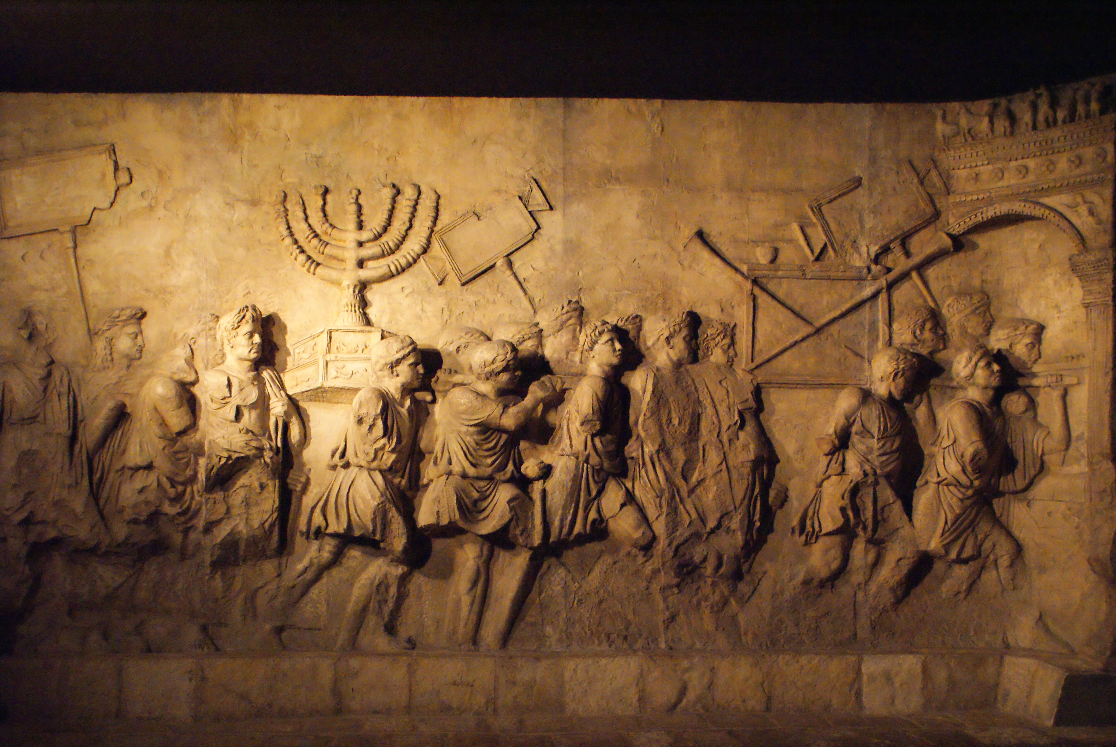 I visited Jeroen in Tel Aviv for the second time in February 2011 after I had not seen him for more than 2 months. Jeroen had to work during the first days, so I rented a bike to cycle along the coast. I visited his architecture office to meet his collegues. And the second half of the week we rented a car to make a trip to the village Arbel near Lake Gallileo.